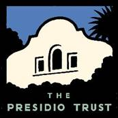 Presidio Trust